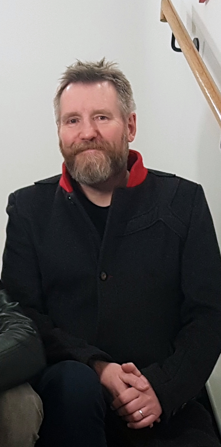 A picture of Derek Forbes, taken at CamGlen Radio